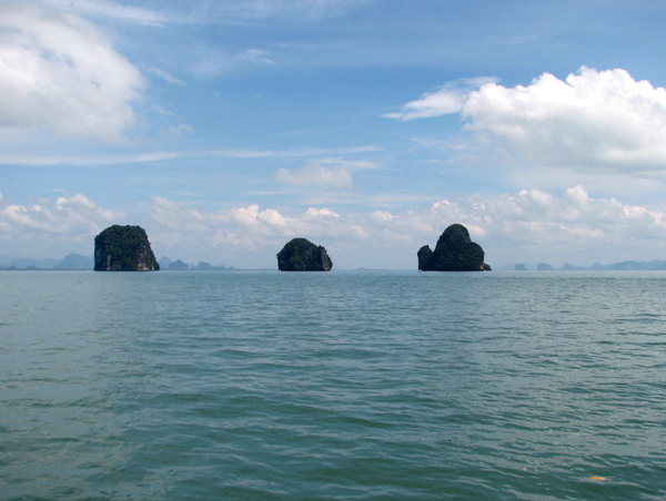 Islets in Phang Nga Bay, Thailand